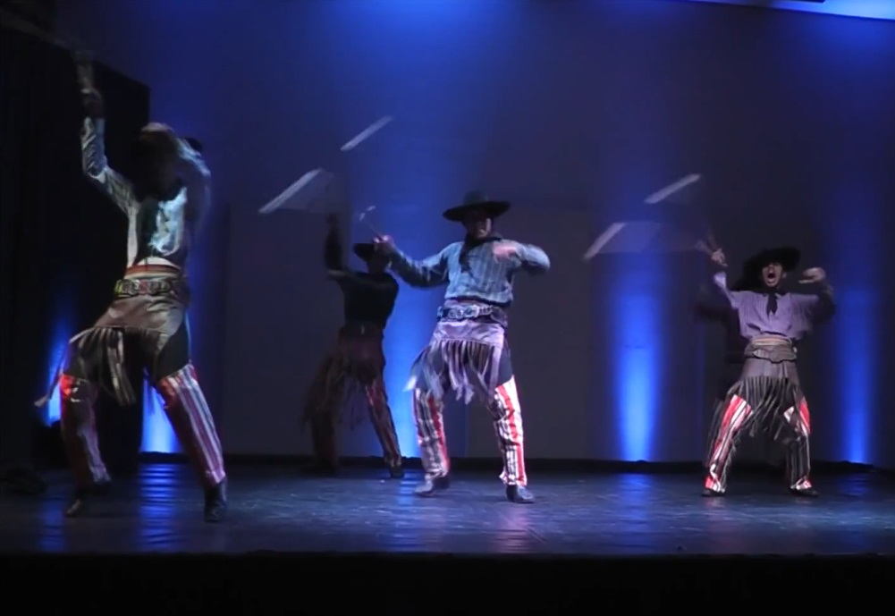 Danza Chiricote is a paraguayan typical dance